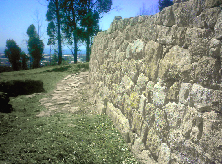 Cividade de Terroso Wall taken June 1, 2006 by user:PedroPVZ